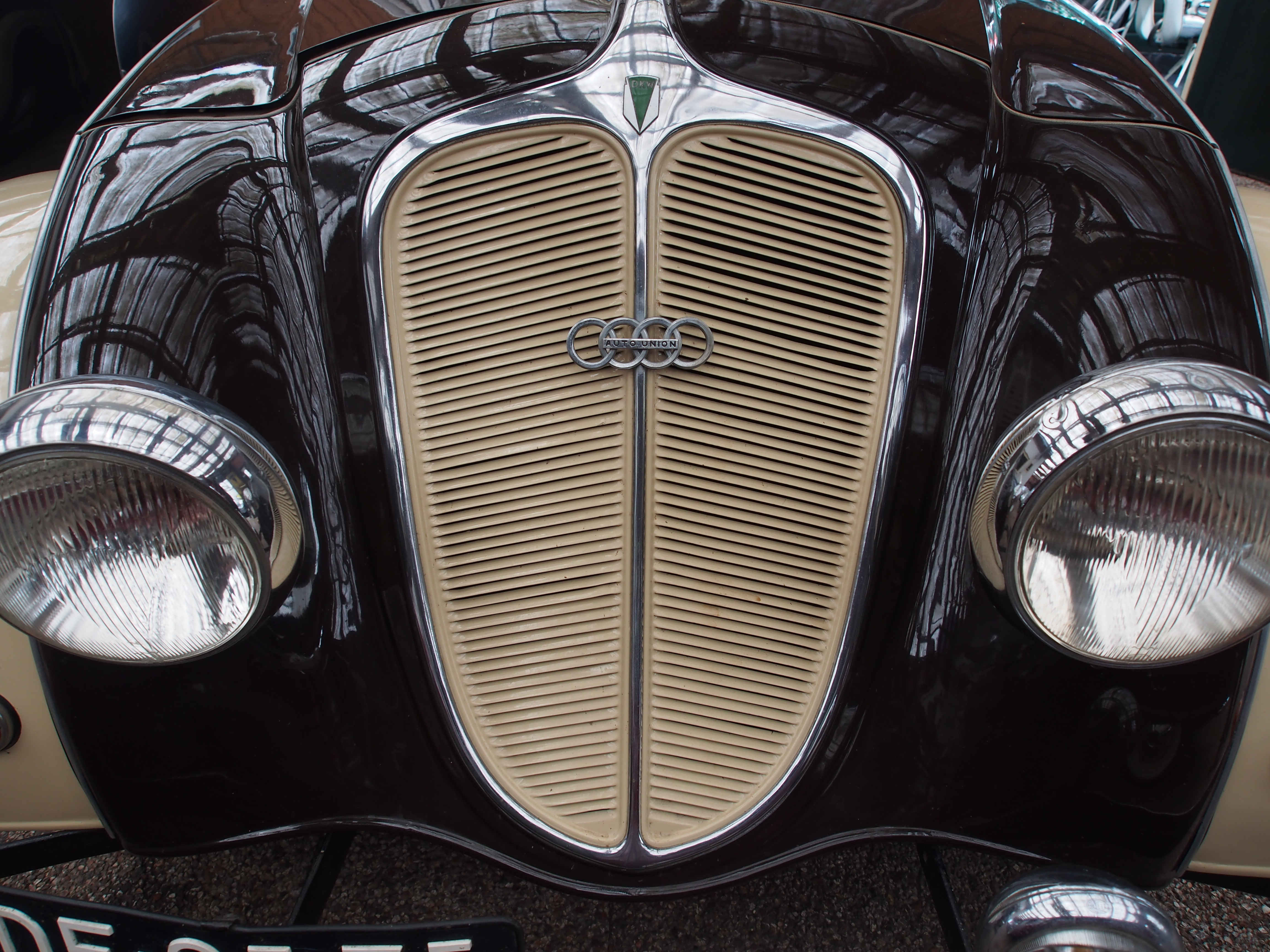 Photographed in the Auto-Union Museum in Bergen, The Netherlands.